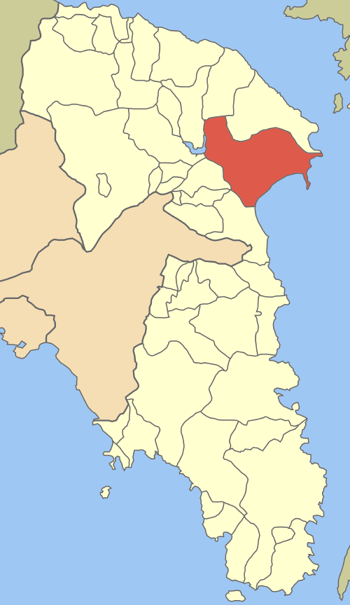 Locator map of Marathon municipality (Δήμος Μαραθώνος) in East Attica Nomarchia (Ανατολικής Αττικής) in Greece.